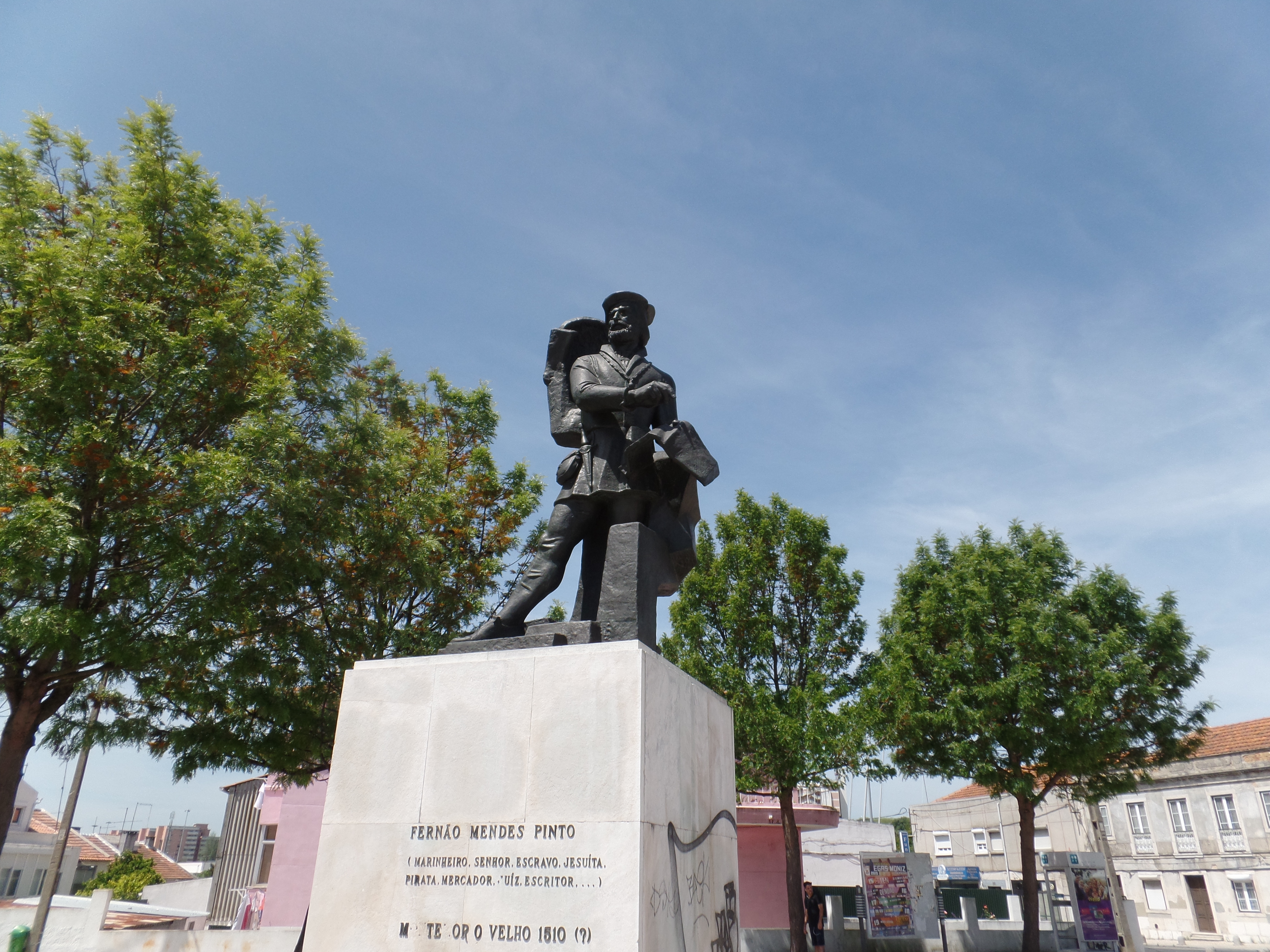 Sculpure of Fernão Mendes Pinto, in the parish of Pragal.